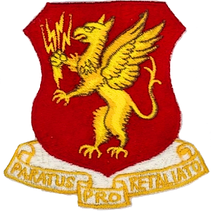 Emblem of the 367th Bombardment Squadron (USAF)